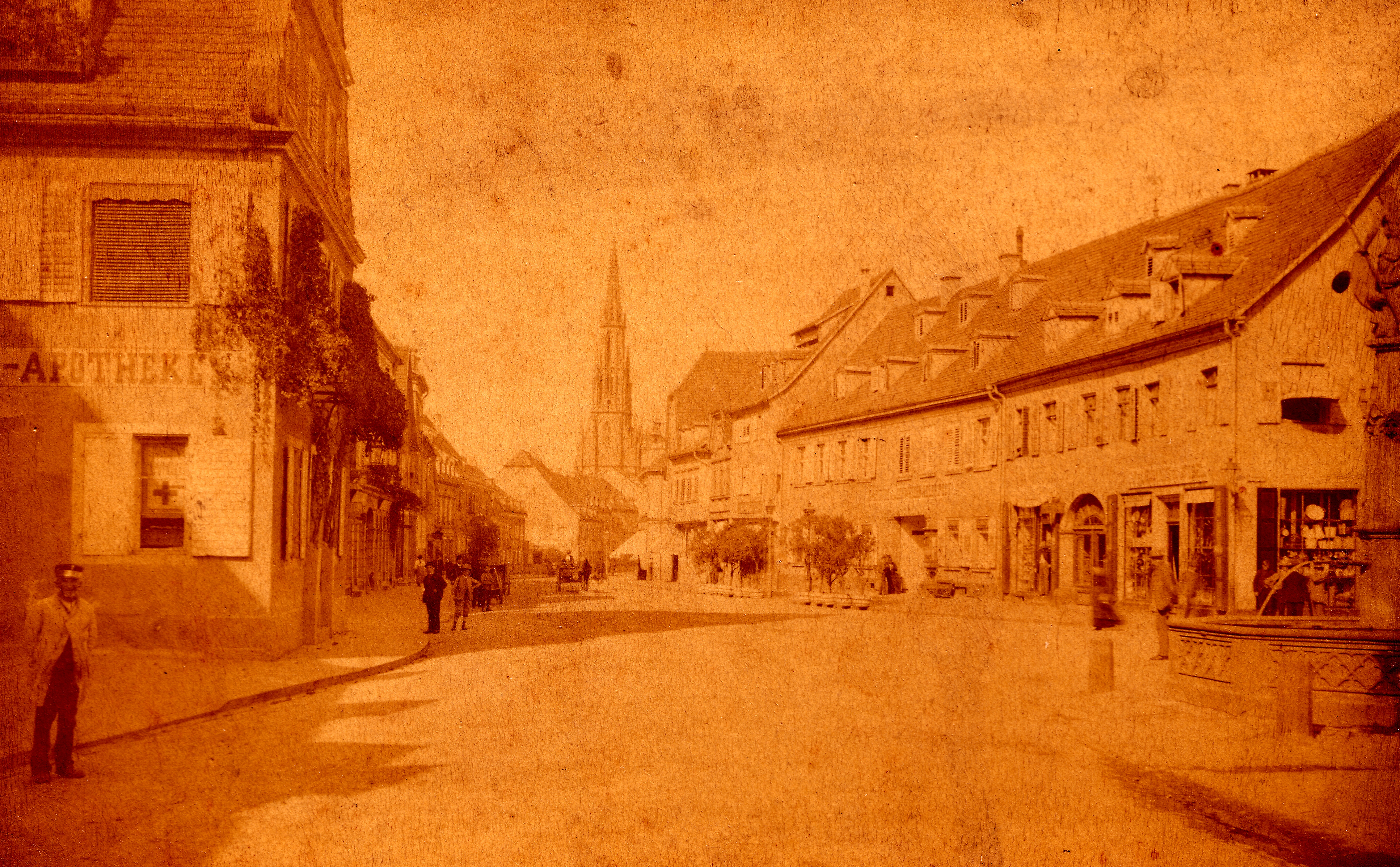 Photo of Offenburg (circa 1870) found in my family's archives. I believe this is the oldest photo of the city in existence. Photographed from the Marktplatz, one can see the Einhorn Phamacy on the left, parts of the Neptune Fountain on the right and in the center the Evangelische Stadtkirche